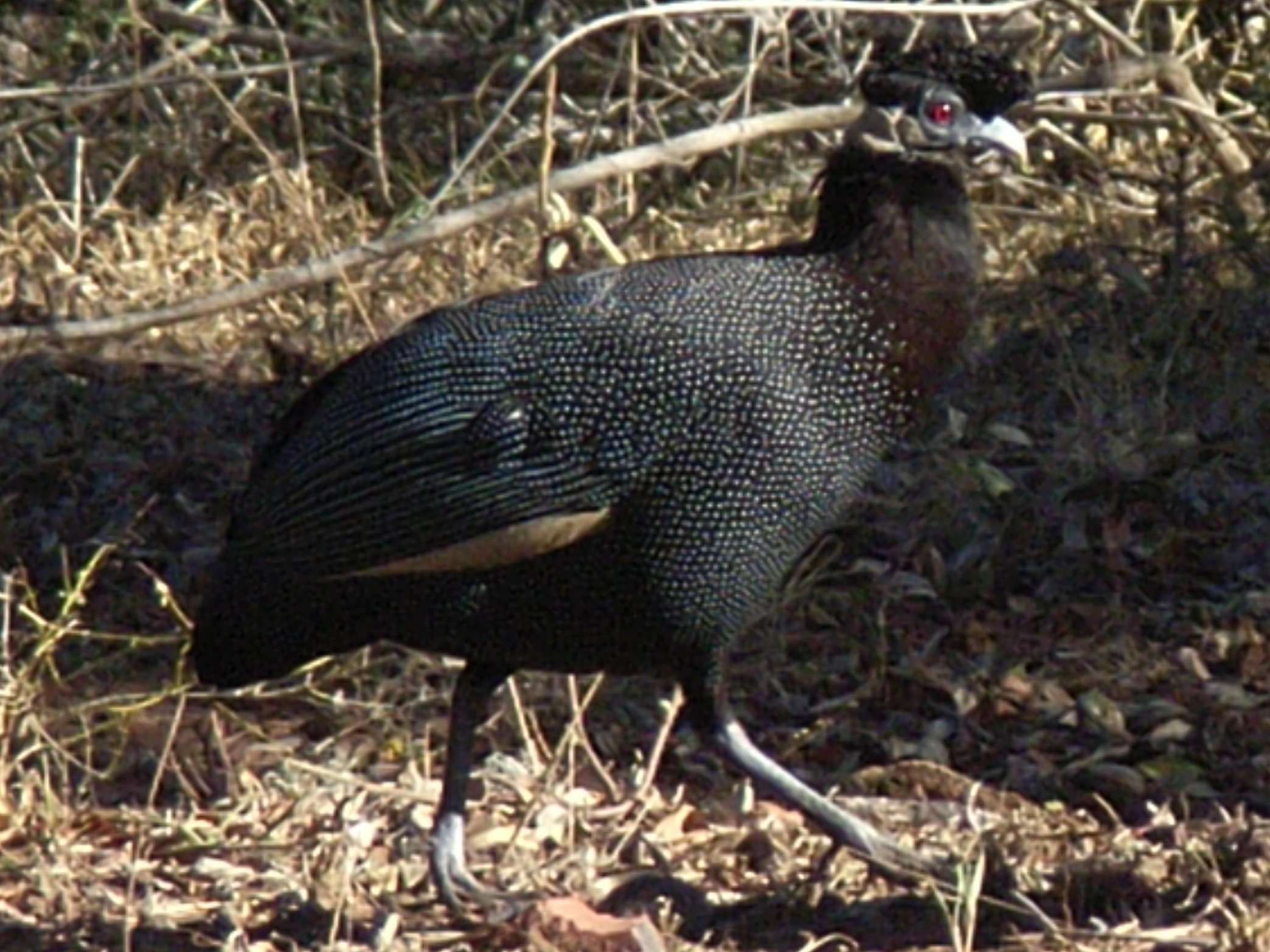 Photo of a Crested Guineafowl Guttera pucherani in Mkuze Game Reserve, Kwazulu Natal, South Africa using a Ricoh Caplio R4 camera.